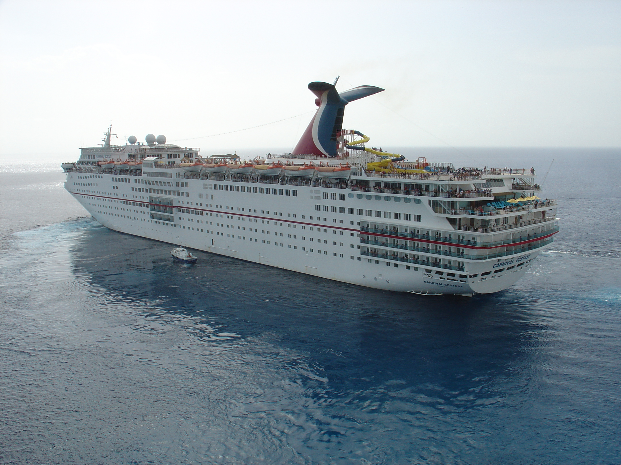 Carnival Ecstasy departing Puerta Maya Pier in Cozumel. Picture taken from Carnival Triumph on August 10, 2010 by Andy P. Jung User:Night Tracks.